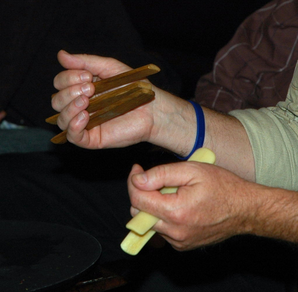 Bones - percussion instrument, made of wood and natural ones.